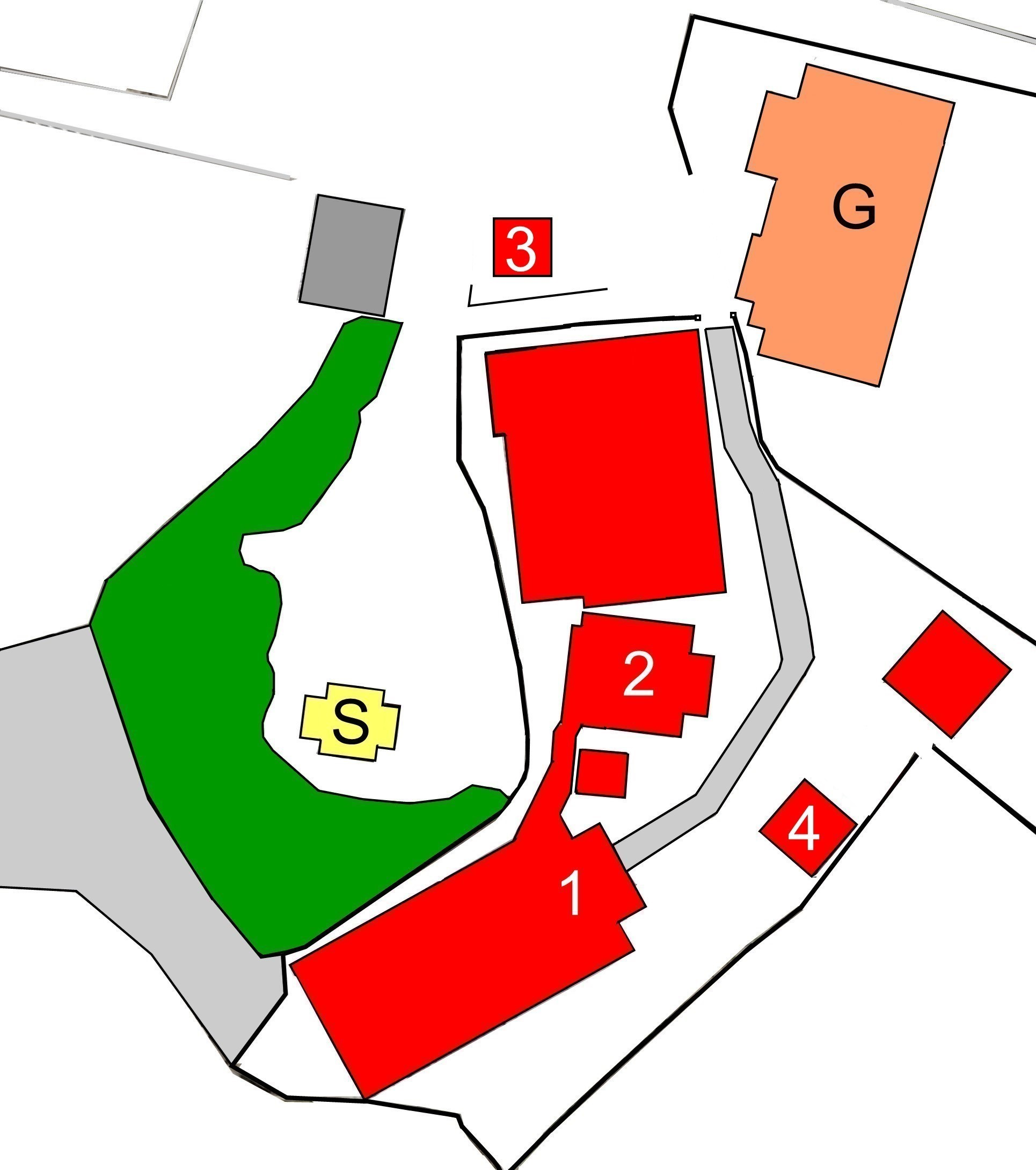 Layout of Tanemaji temple, Kôchi Prefecture, Japan